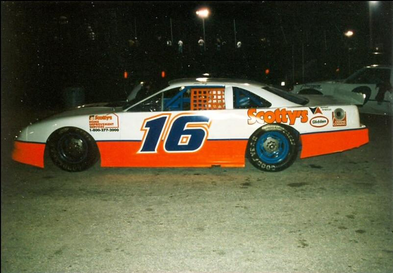 Eddie King's No.16 FASCAR Sunbelt Super Late Model Series car